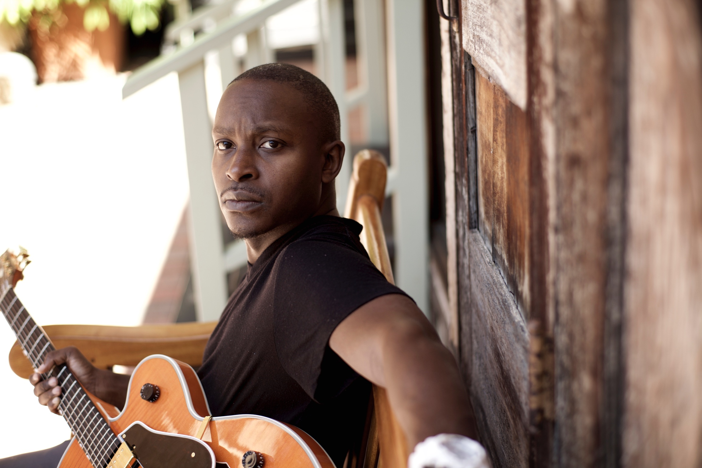 Theron "Neff-U" Feemster Ron "Neff-U" Feemster